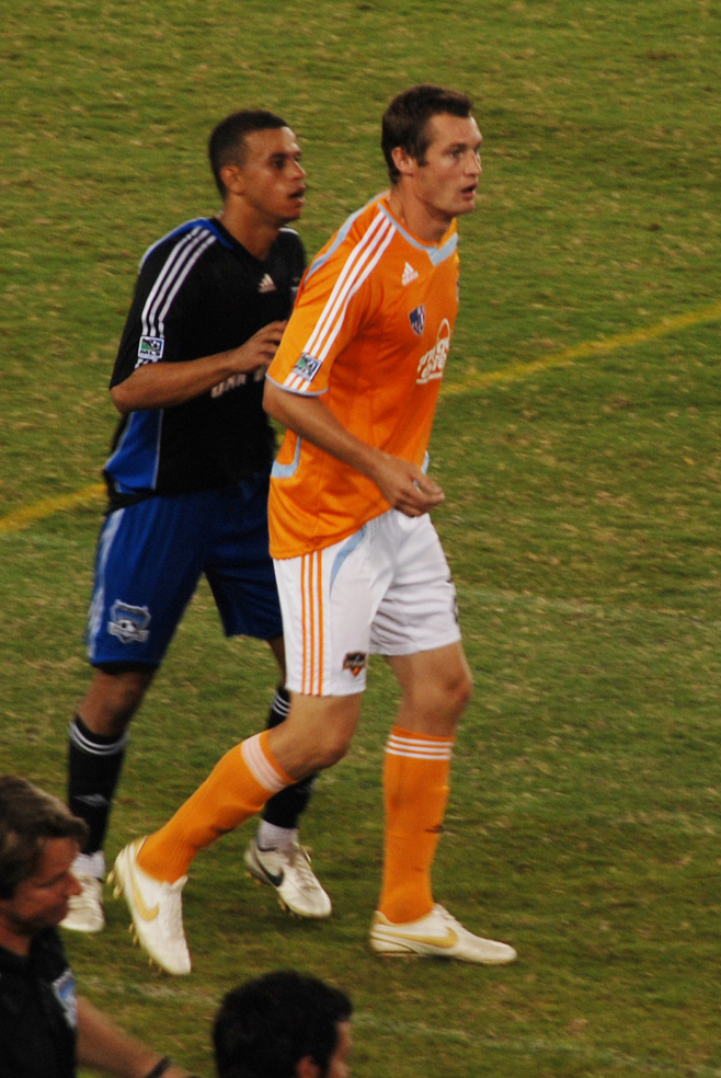 Houston vs San José @ Robertson Stadium